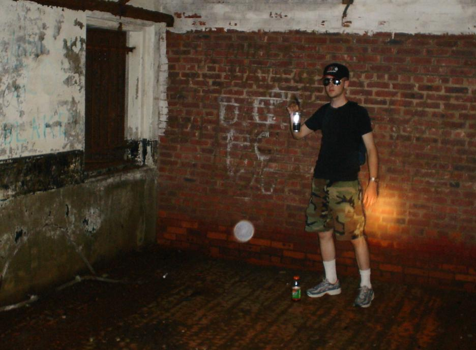 Uploaded by owner of the picture.